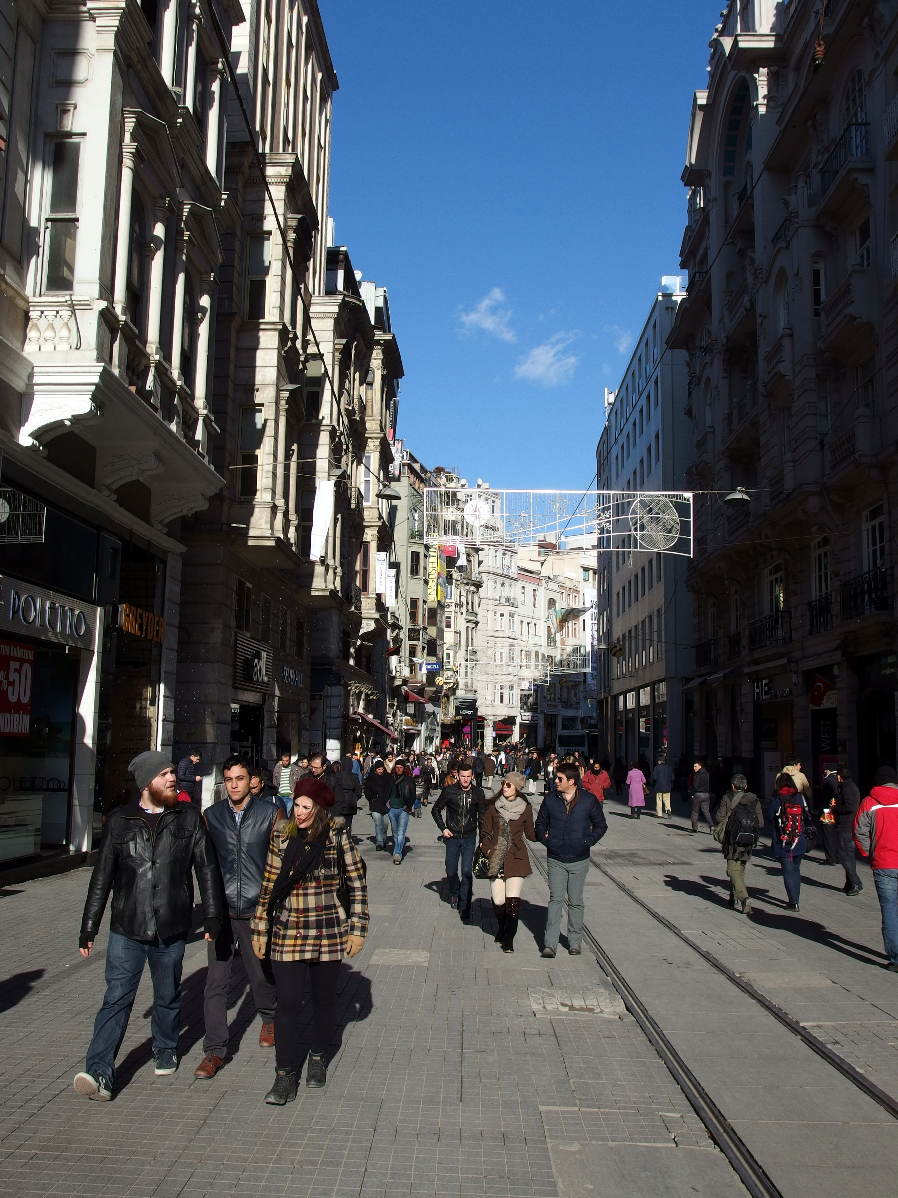 2013-12-08 in Istanbul.